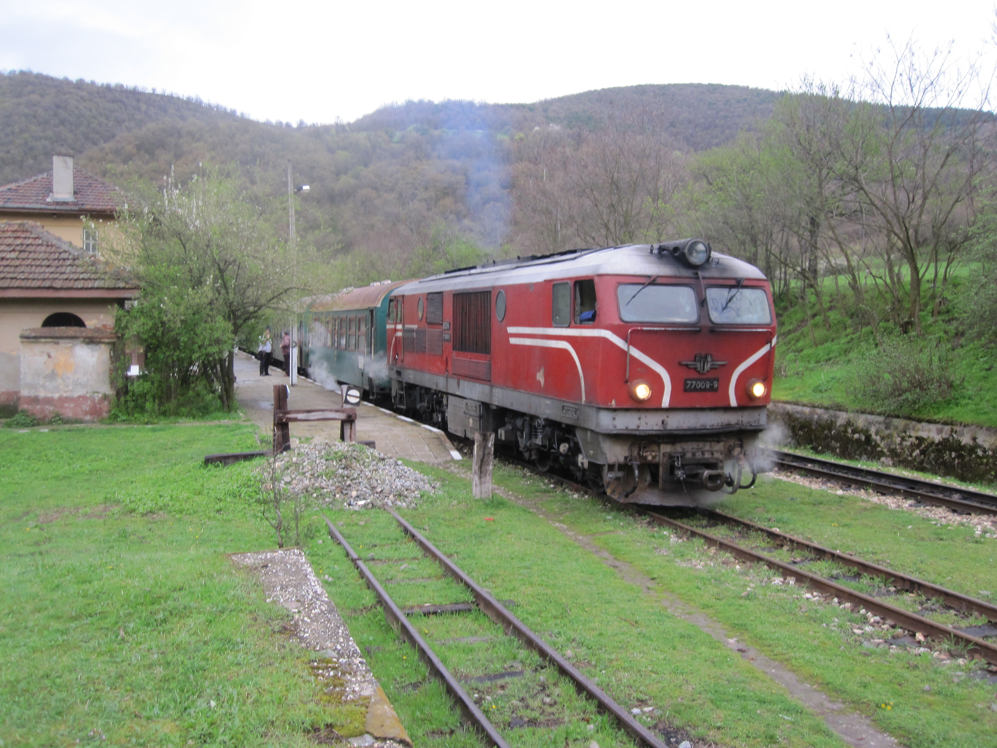 During a stop to await a service in the opposite direction to cross, a few minutes of photography and video shooting took place. The train in view was 16106, 15:00 Dobrinishte to Septemvri on 20 April 2010. As the line climbs high in to the hills, the outside temperature in the early evening dropped enough for the steam heating boiler to be used - a rare sight in Europe nowadays. Video of incoming train